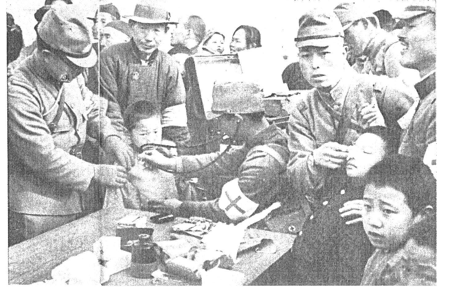 This is a photograph taken by a Japanese correspondent on December 20, 1937, during Nanjing Massacre. It was published in January 1938 by a Japanese photograph magazine, which adds a caption "sanitary team works for Chinese in Nanking refugee district". However, George Fitch, a Nanjing Massacre witness, refuted the Japanese propaganda when he read an article titled Japanese offer medical care to Nanking patients in a Japanese newspaper. He wrote in his diaries that "we would have laughed aloud, if things taking place in Nanking were not so miserable."